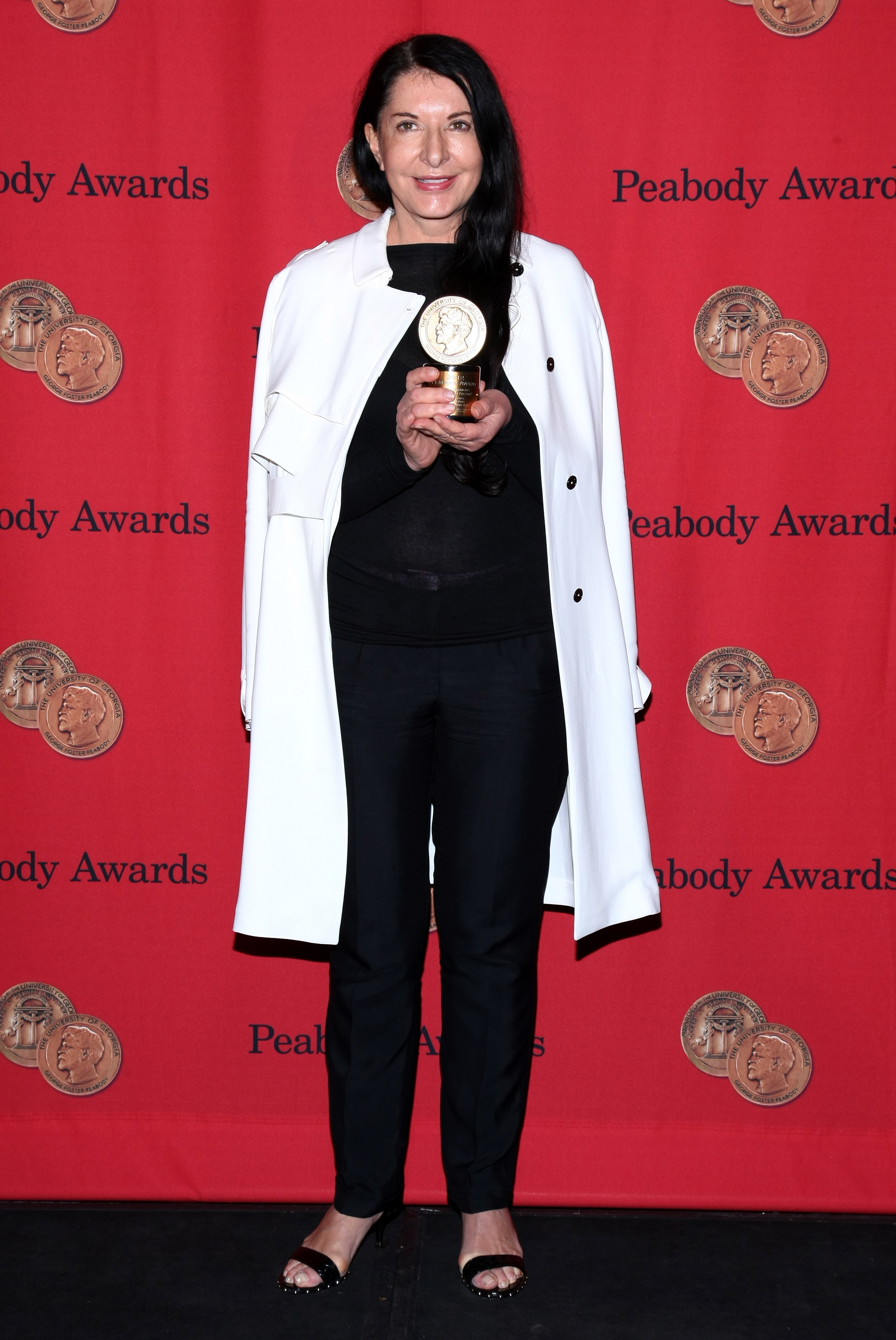 Marina Abramovic PHOTO CREDIT: ANDERS KRUSBERG / PEABODY AWARDS 72nd Annual Peabody Awards Luncheon Waldorf-Astoria Hotel May 20, 2013